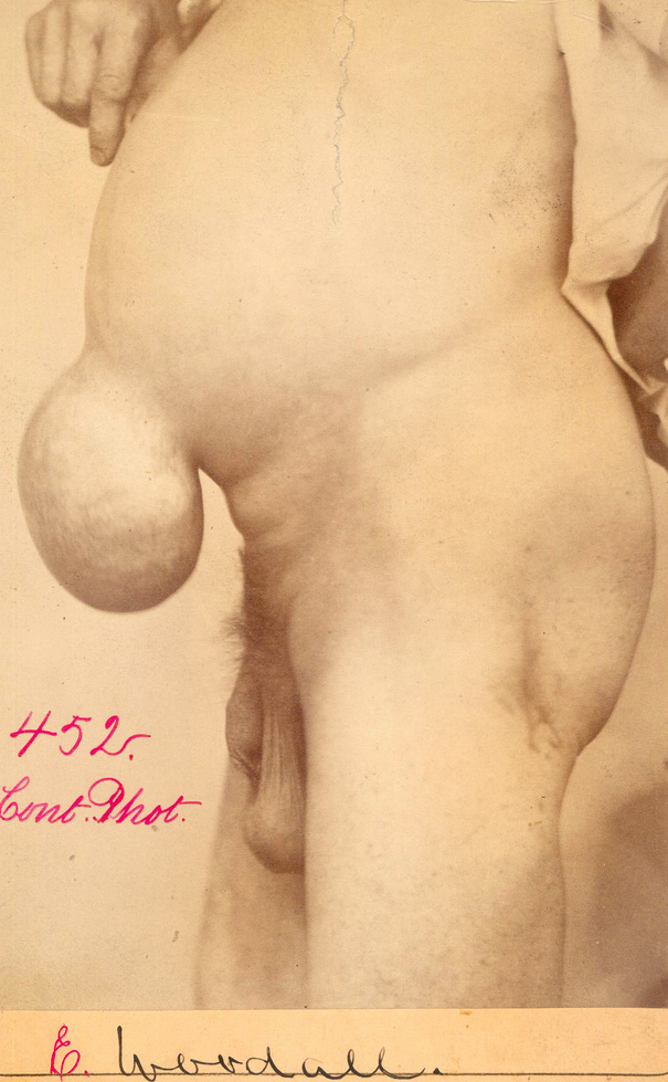 Umbilical hernia. PVT, Company K, 5 ; Contributed Photograph 0452 WOODALL, EDWARD